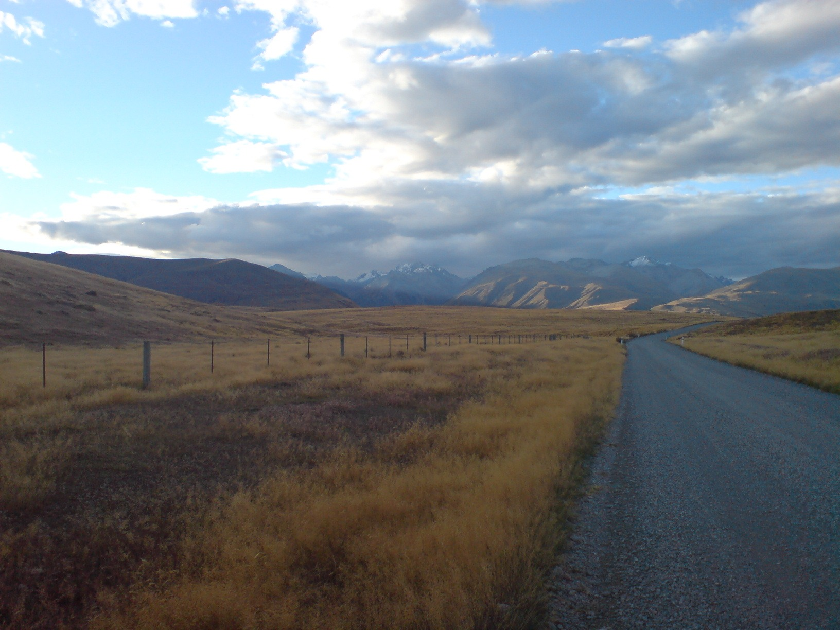 Road north of Lake Alexandrina, several km from Lake Tekapo, New Zealand. The Southern Alps in the background, looking northwards.